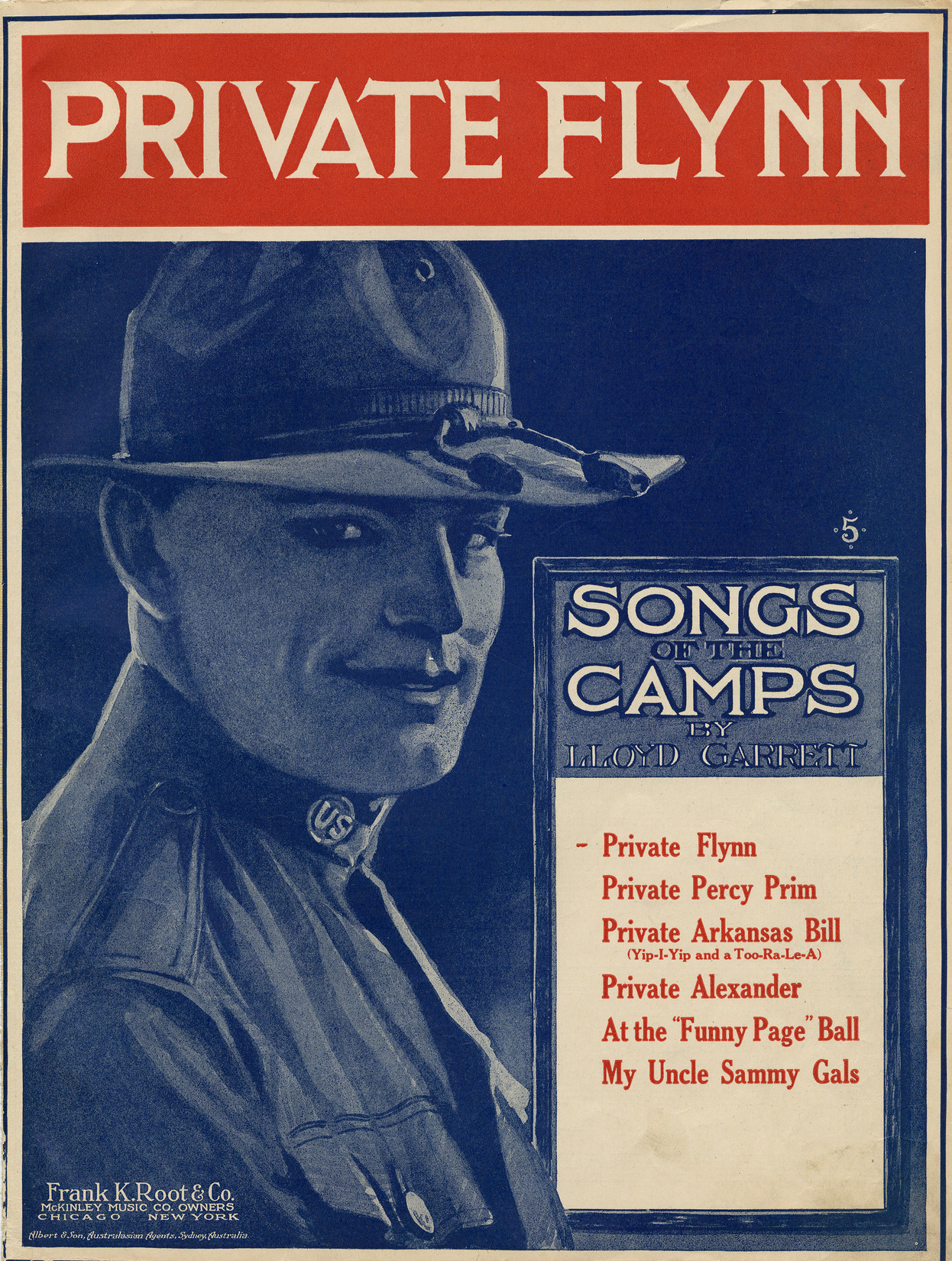 cover page to sheet music